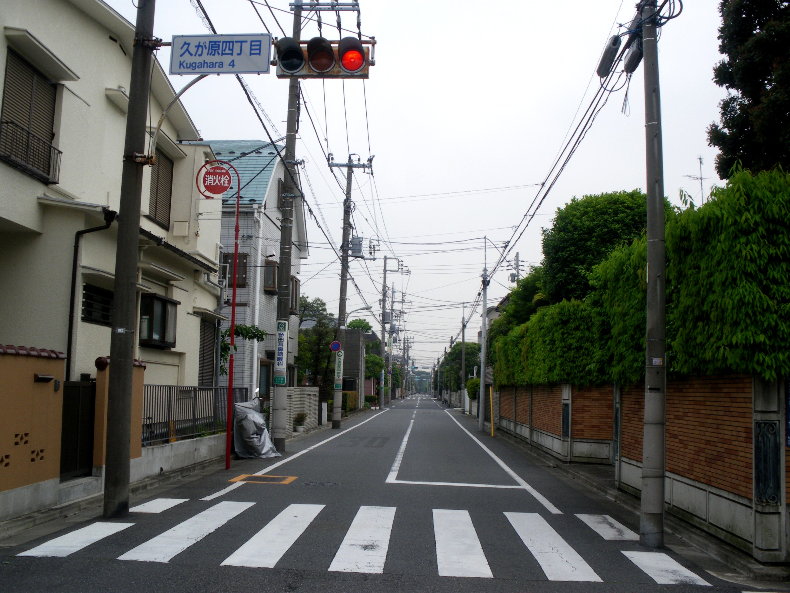 Kugahara 4 chome(Ota,Tokyo)